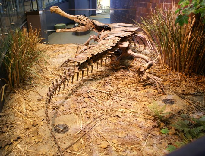 Mounted Sarcosuchus skeleton replica at the Children's Museum of Indianapolis showing osteoderms.